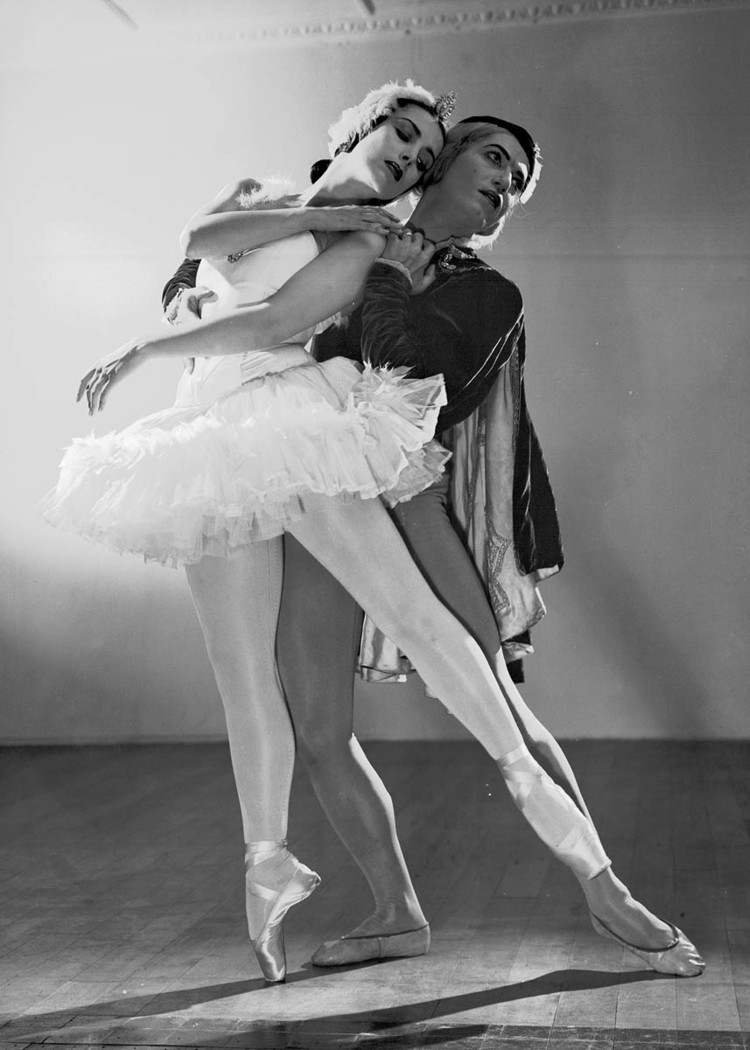 Russian ballerina and actress Tamara Toumanova and Ukrainian ballet dancer and choreographer Serge Lifar performing the Swan Lake.